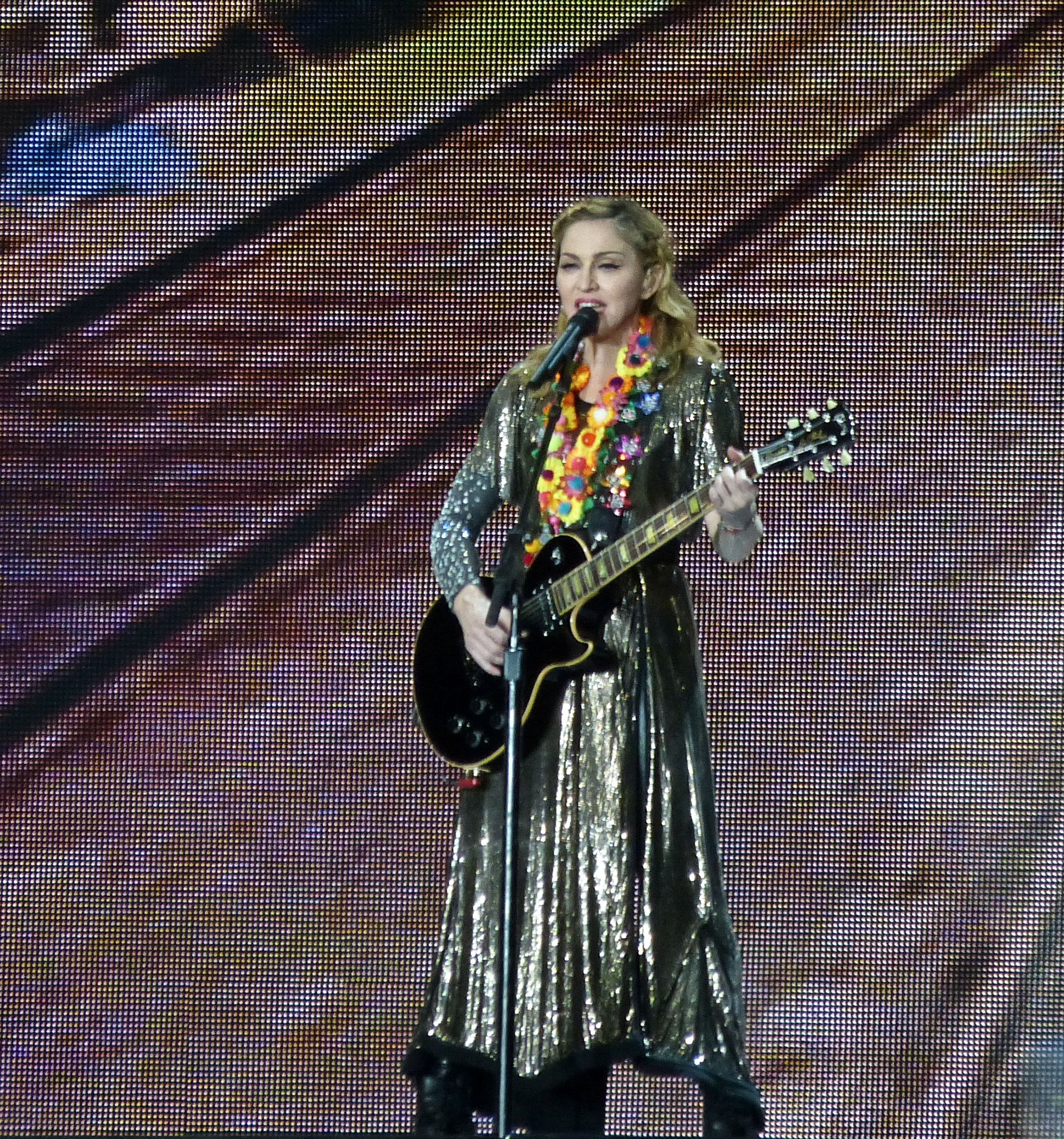 MDNA Tour, Córdoba, Argentina